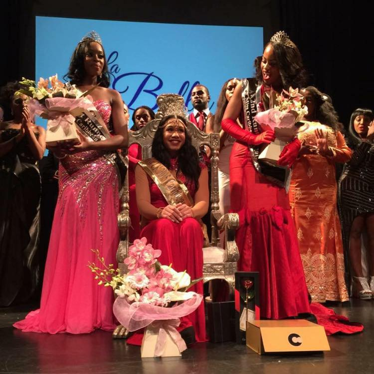 Selina Chippy (in pink) 1st Runner Up, Amy Harris-Willock (in red) Winner, Nicole Renwick (in red) 2nd Runner Up. Amy's dress, which won best evening gown, is by designer Francis Agyapong of AgyeFrance Design.